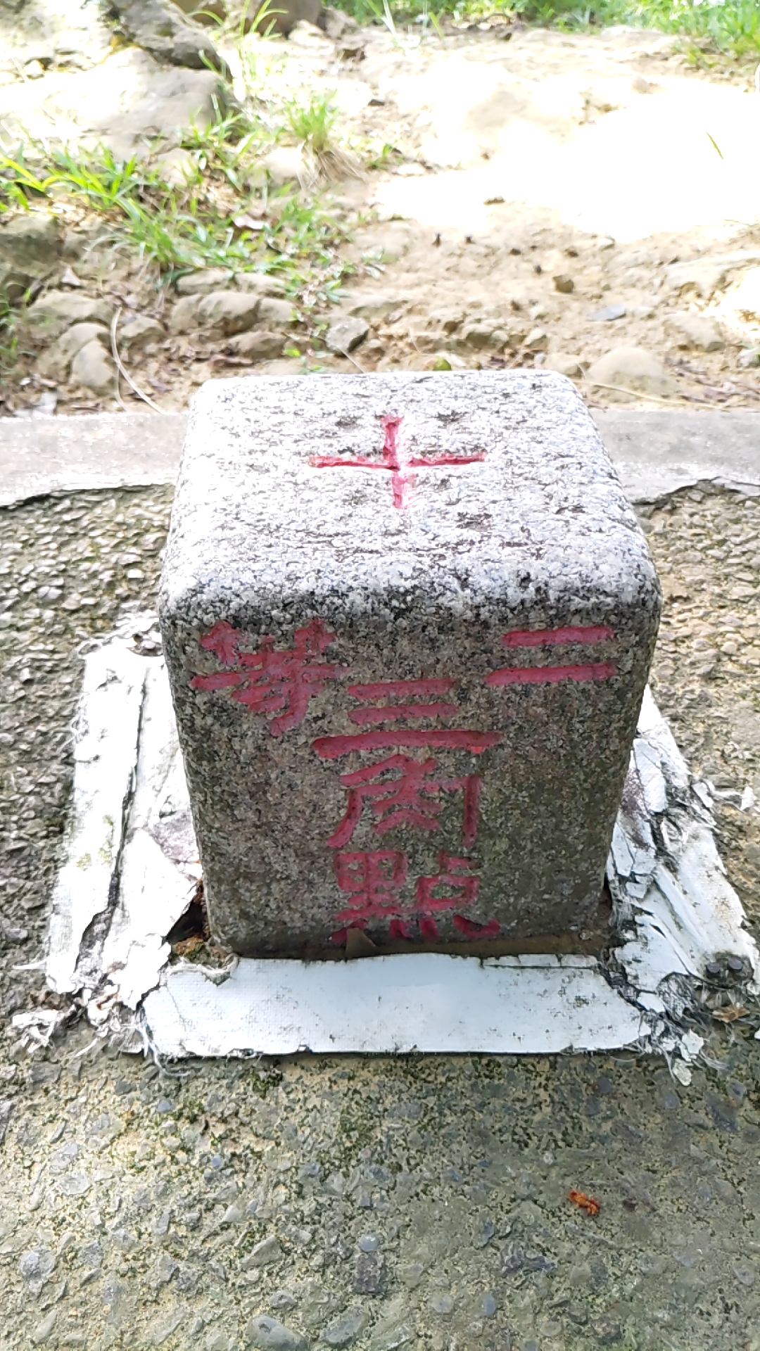 2st class of triangulation point on Mt. Erge Mountain, Taipei City, Taiwan. 中文（台灣）: 台北市景美山仙跡岩 上的二等三角點 (兼內政部二等衛星控制點 No.1043)